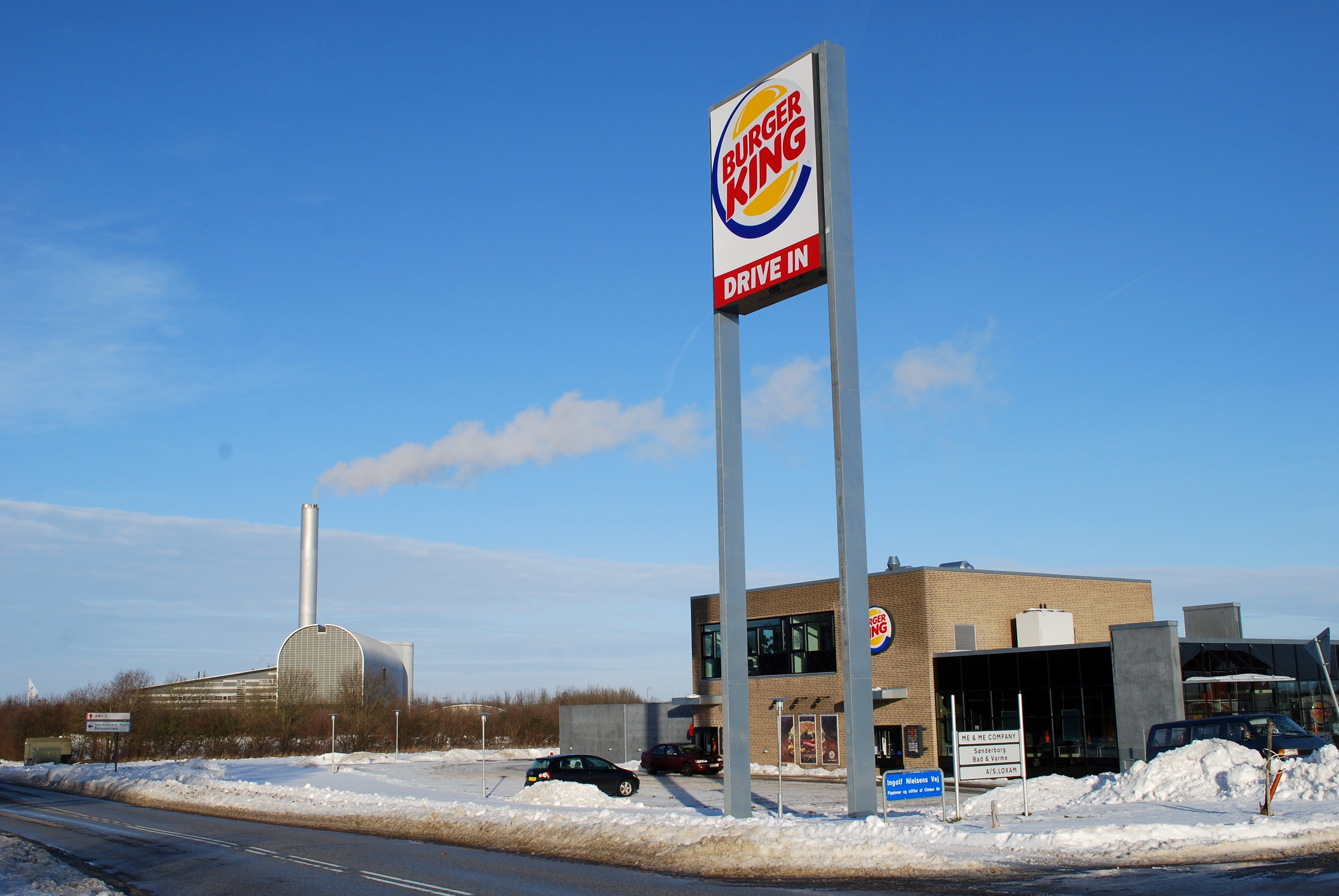 Sonderburg - Denmark